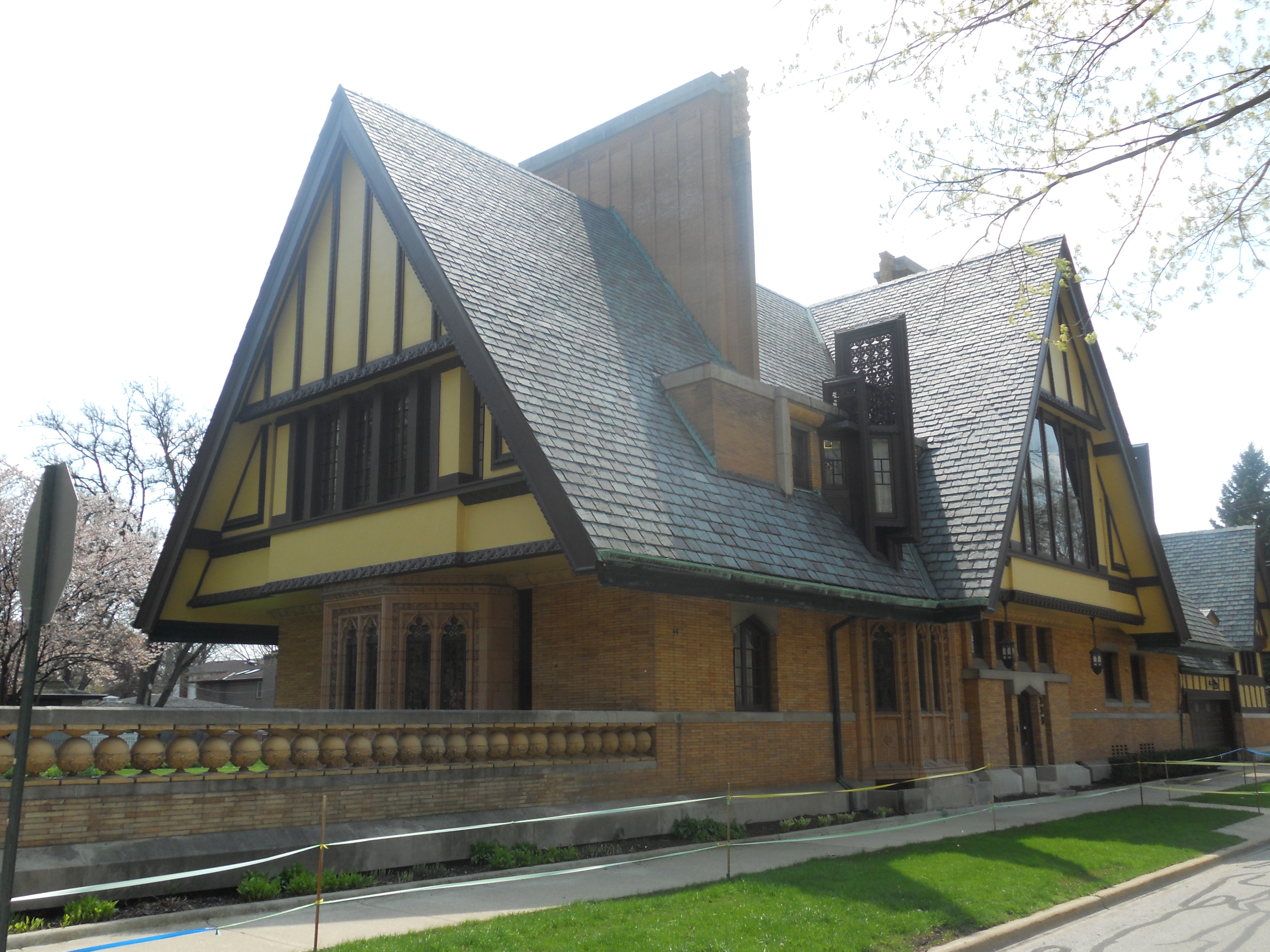 Frank Lloyd Wright's Nathan G. Moore house (1895), Oak Park, IL, rear